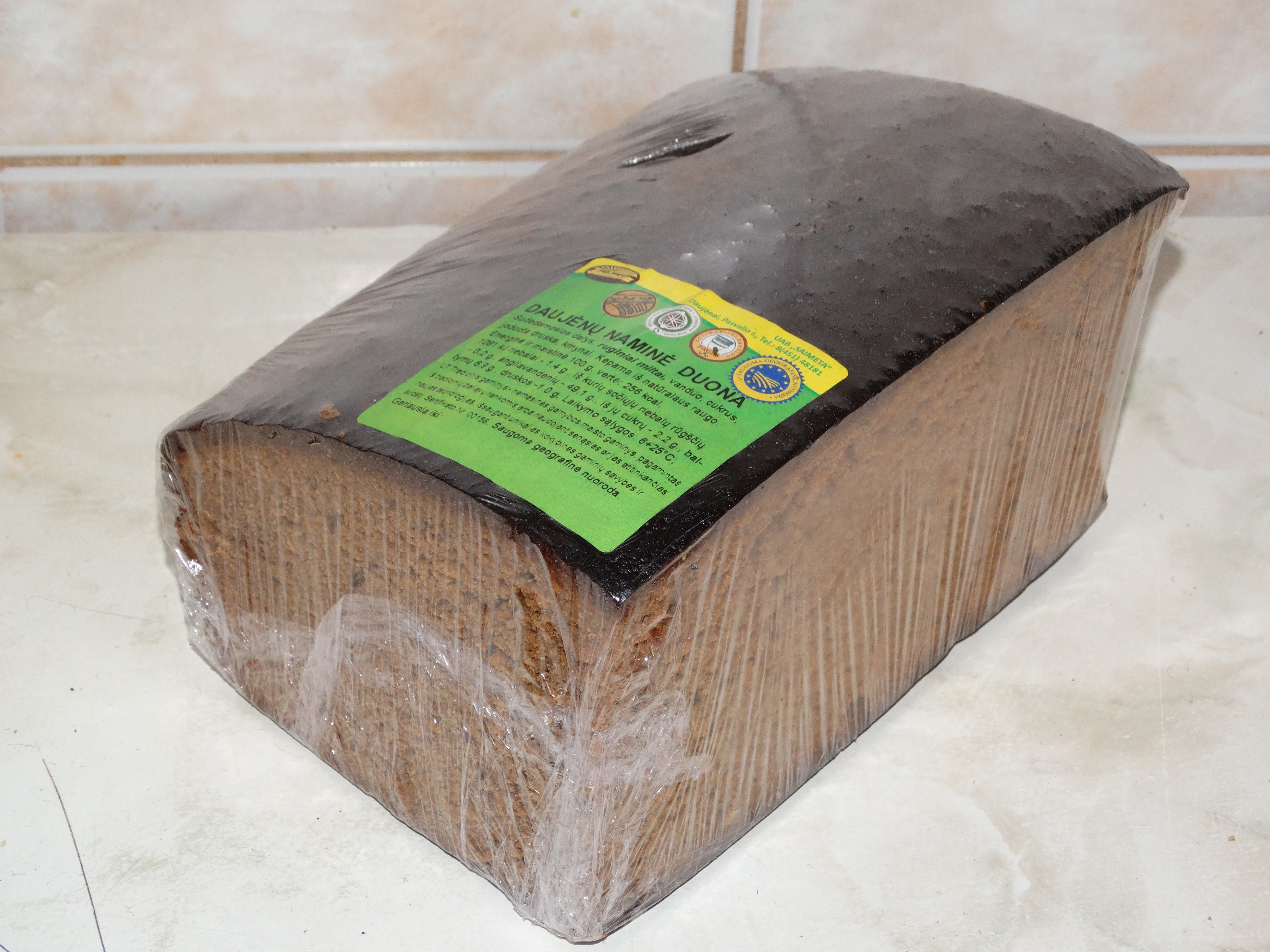 Daujėnai homemade bread, sealed in cling film, Lithuania